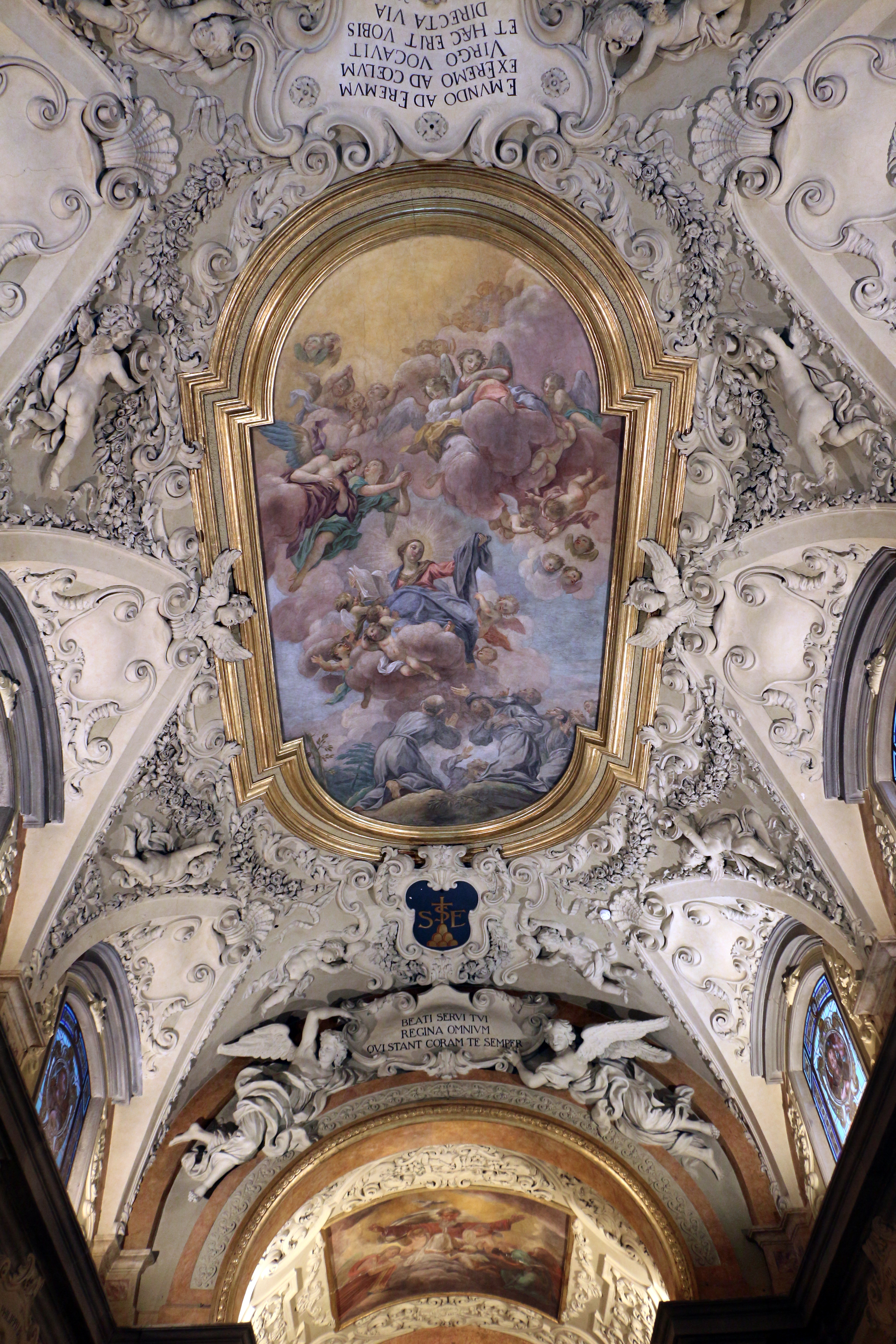 Montesenario